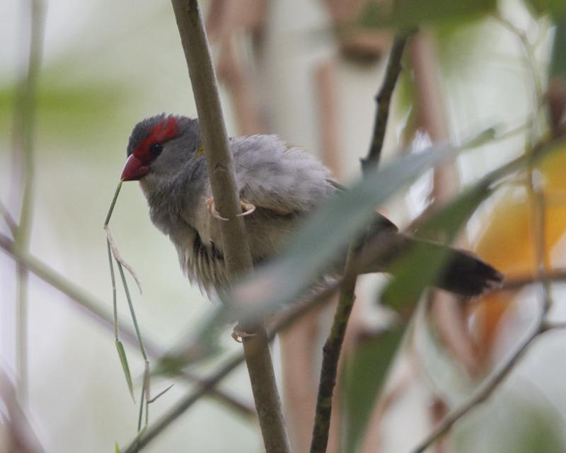 Red-browed Firetail Red-browed Finch Neochmia temporalis Nominate race, Neochmia temporalis temporalis 29th. December 2010 The Bower, adjacent to Illawong Nature Reserve, NSW Distribution: 690V6366